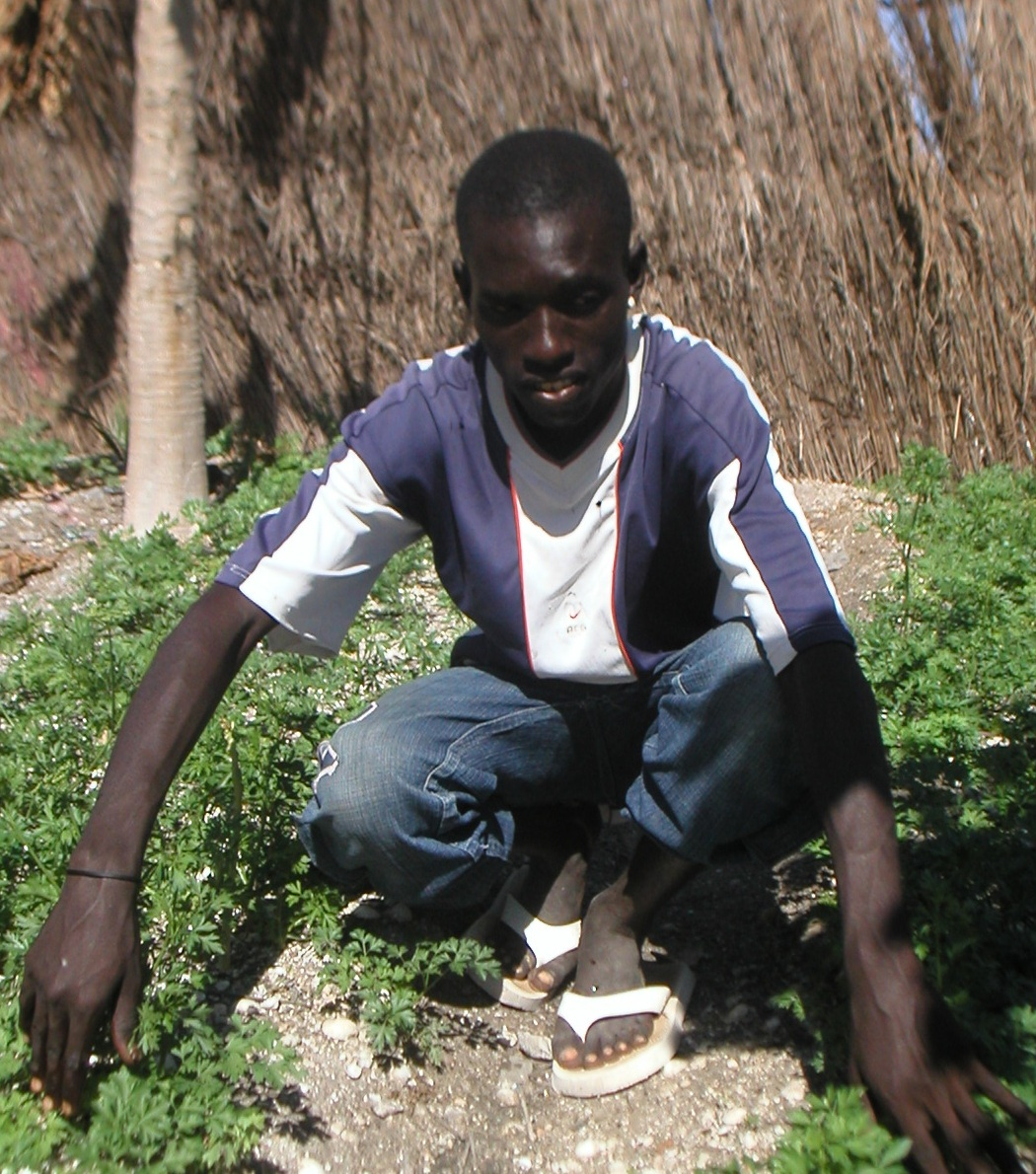 Deni Biram village, Senegal This is an image of "African people at work" from Senegal